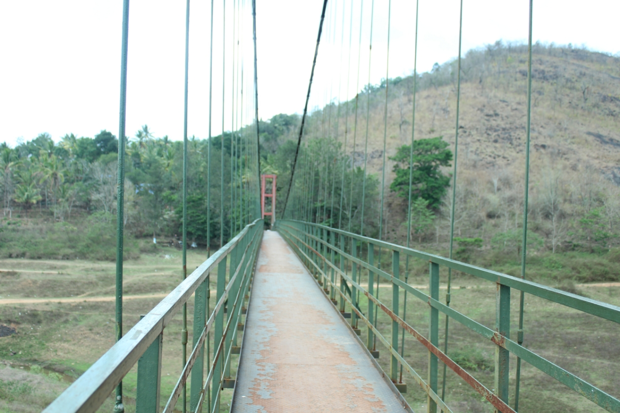 Ayyappankovil hanging (suspension) bridge അയ്യപ്പൻകോവിൽ തൂക്കുപാലം